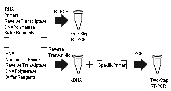 One-step vs two-step comparison of RT-PCR